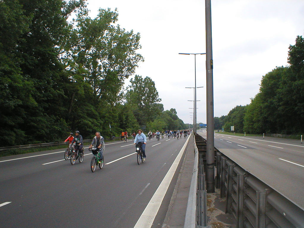 AVUS circuit with cyclists of "Fahrradsternfahrt Berlin und Brandenburg" 2007.